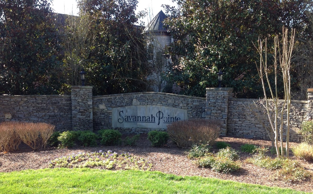 Savnnah Pointe